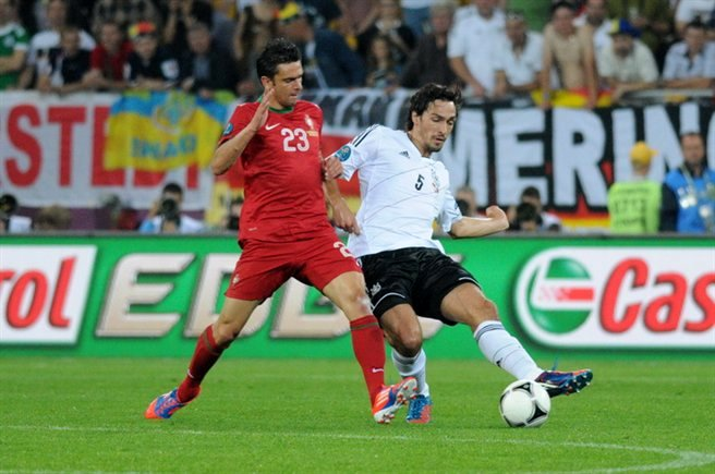 Match between Germany and Portugal during UEFA Euro 2012 that took place in Lviv. Final score was 1:0 (Gómez).